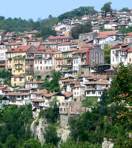 The old section of Veliko Turnovo, Bulgaria.